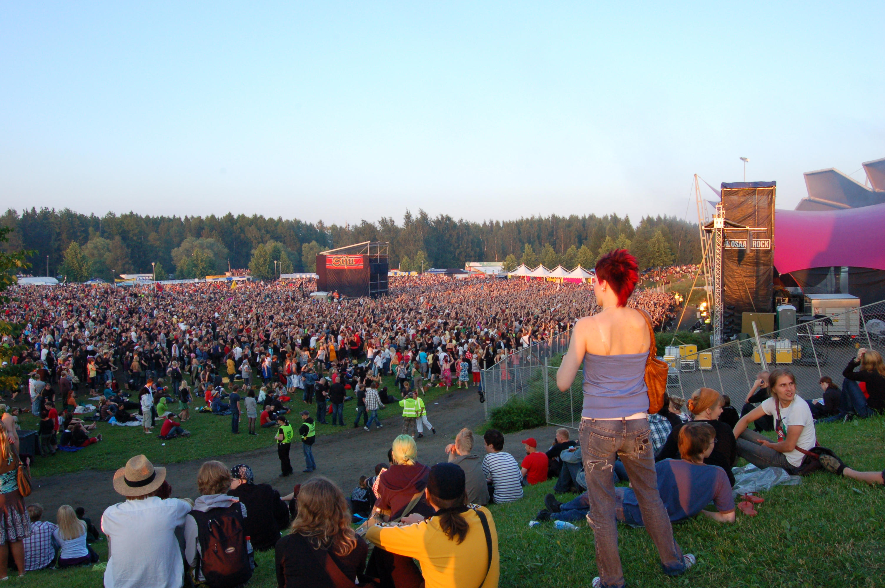 Main stage area of Ilosaarirock (2007) festival site in Joensuu, Finland.